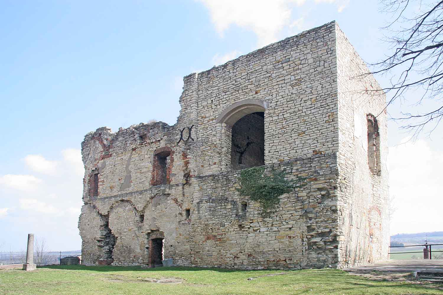 Košumberk Castle ruin